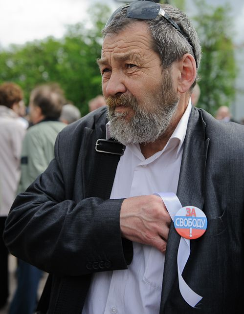 Sergei Mokhnatkin. The first political prisoner of modern Russia. December 31, 2009 walking down the street saw a police officer beating a woman. He tried to protect her, was charged with assaulting a police officer. He was sentenced to 2.5 years in prison. Released under an amnesty in 2012. May 13, in Moscow, held a civil action under the title "Control Walking." The essence of the campaign was to show the power (to Vladimir Putin) that citizens can assemble peacefully, and where they want to go where they want. And no one can restrict civil liberties. The action was led by Russian writers. Thousands of people strolled along the boulevards of the capital.